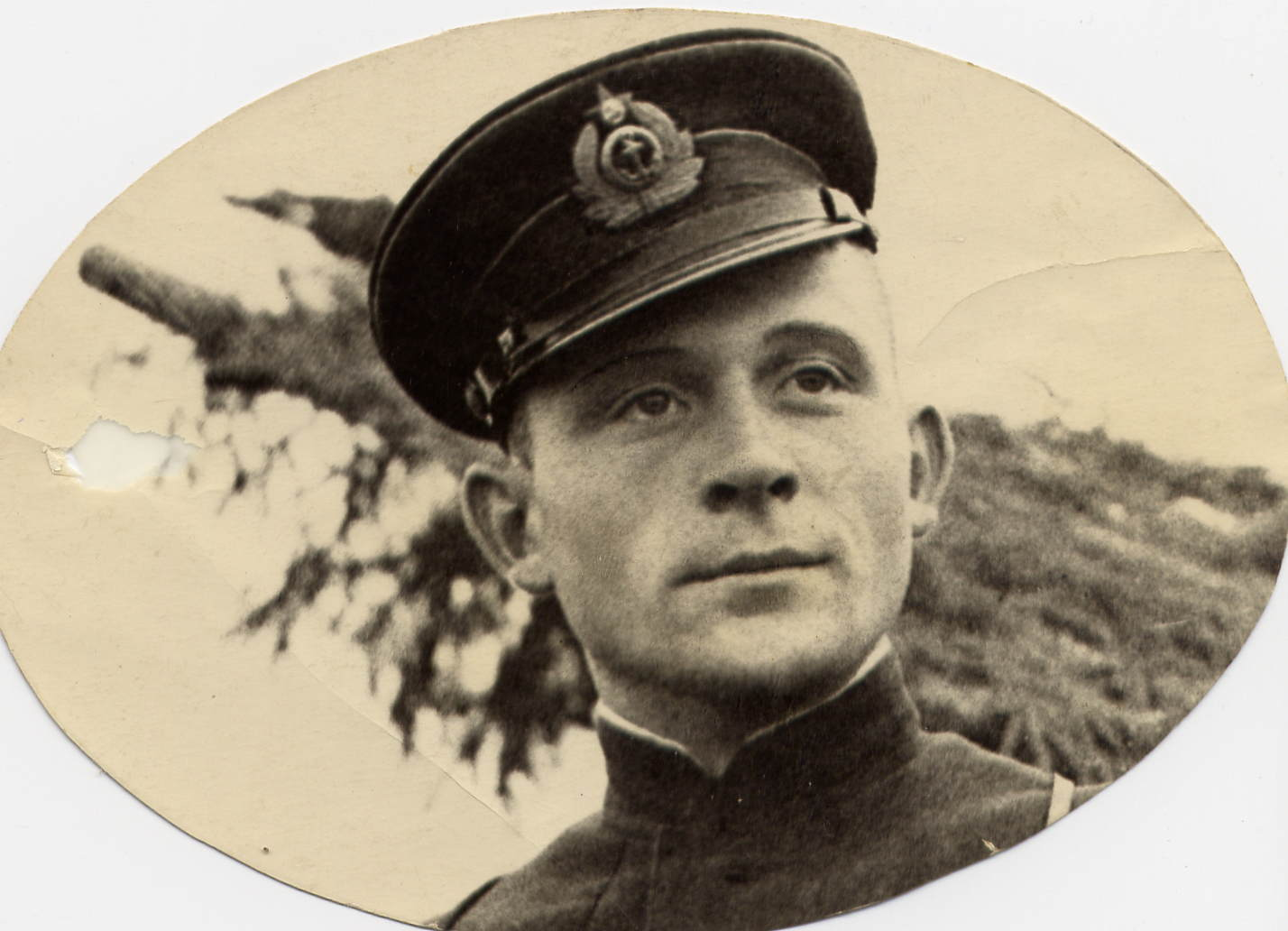 Смирнов Георгий Григорьевич отчим композитора Татьяны Георгиевны Смирновой